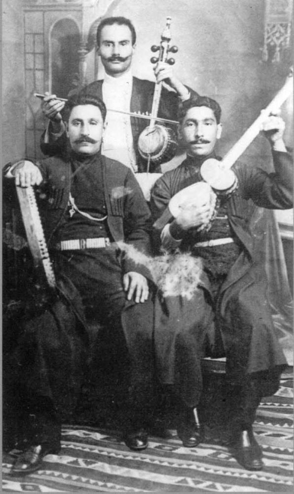 Mashadi Mammad Farzaliyev, Qurban Pirimov (tar), Sandro (kamancha). Ganja.